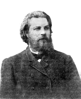 Pyotr Fyodorovich Polyansky 1890s